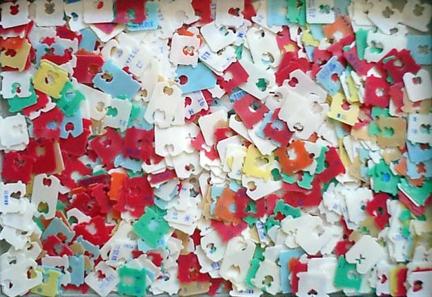 DopefishJustin's collection of bread clips.